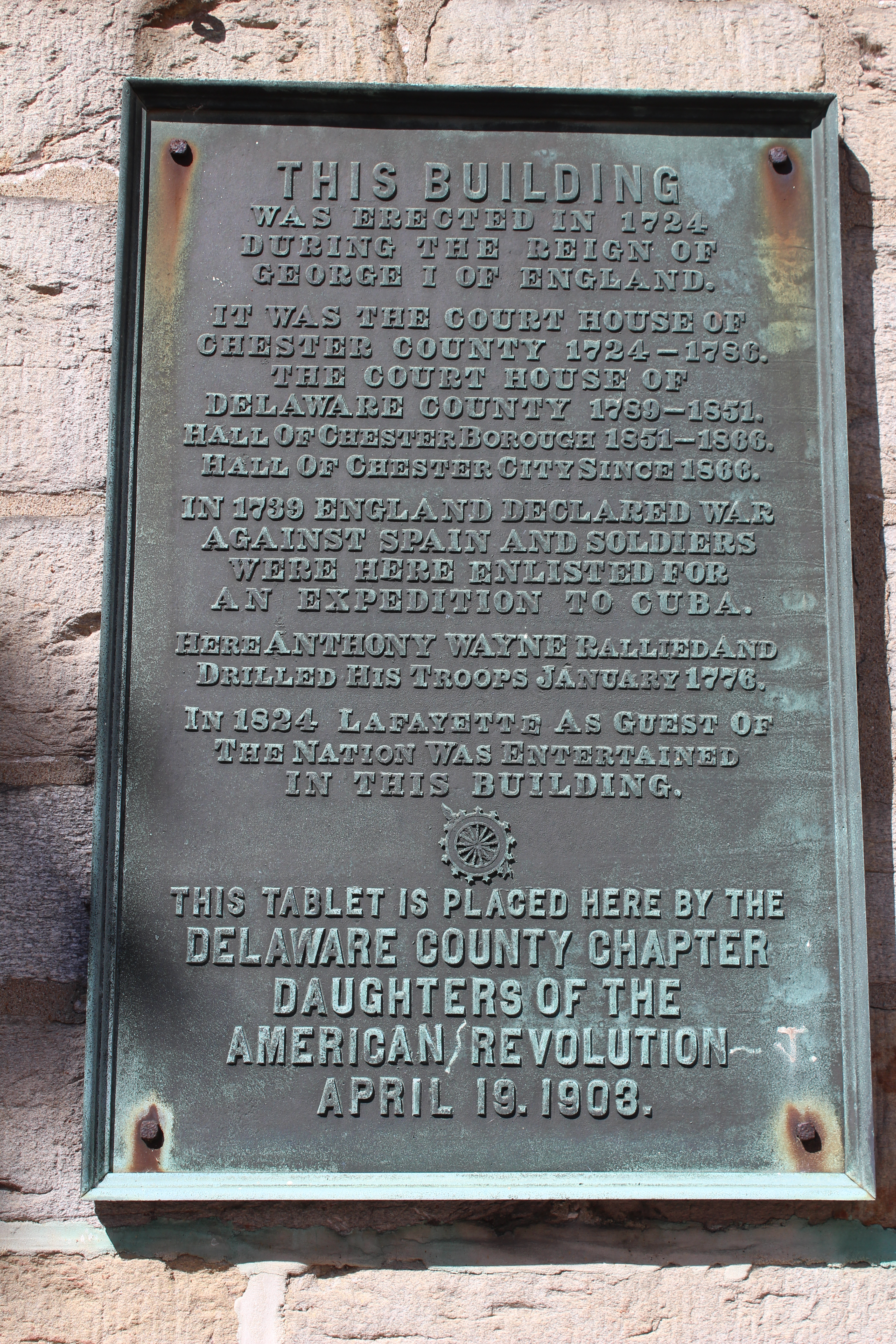 Plaque on the front of 1724 Chester Courthouse. Photo taken May 2020.